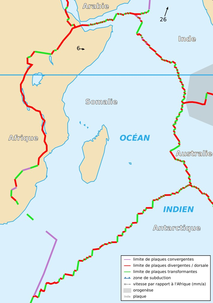 Map of the Somali Plate